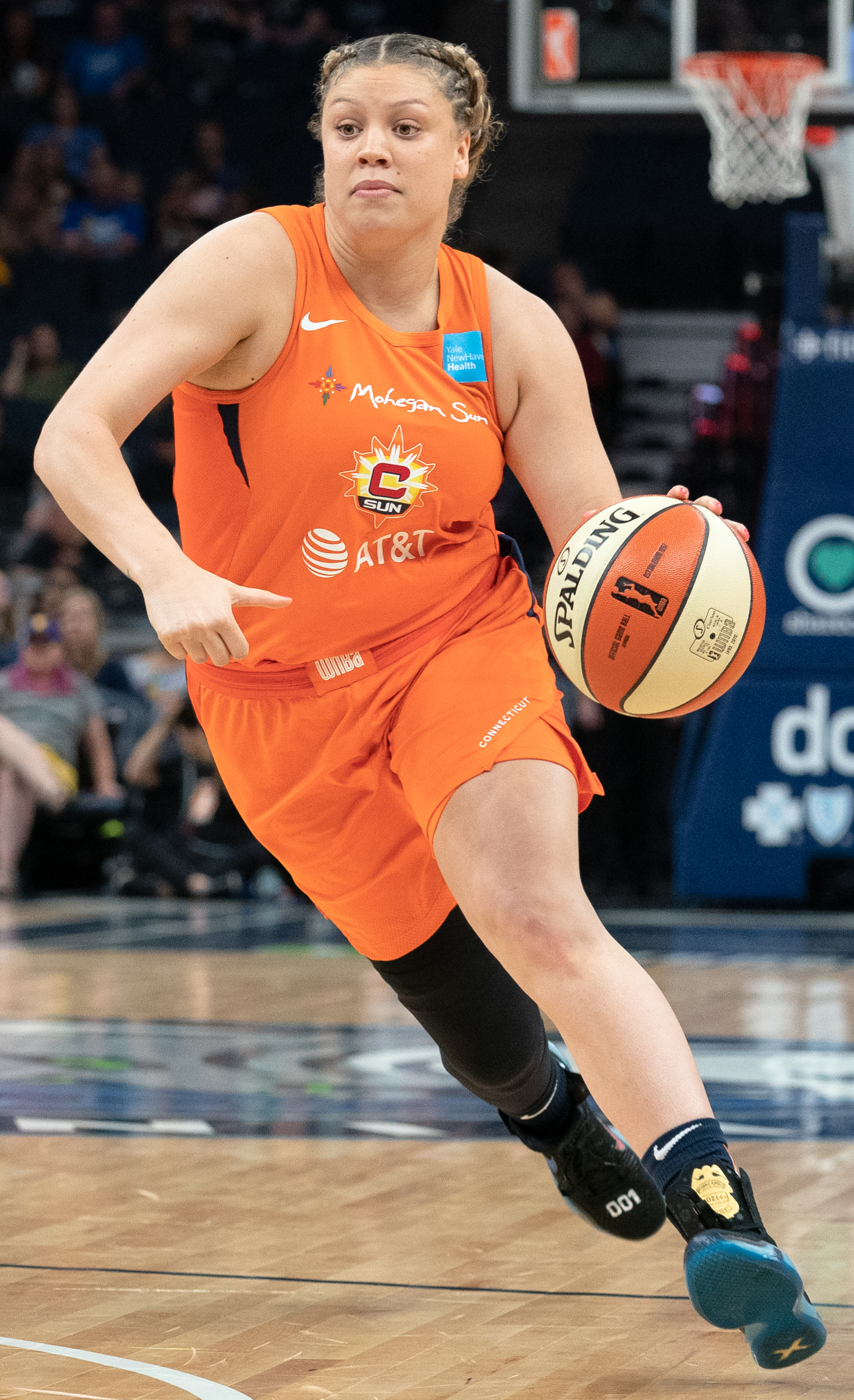 Connecticut Sun player Rachel Banham in a game against the Minnesota Lynx